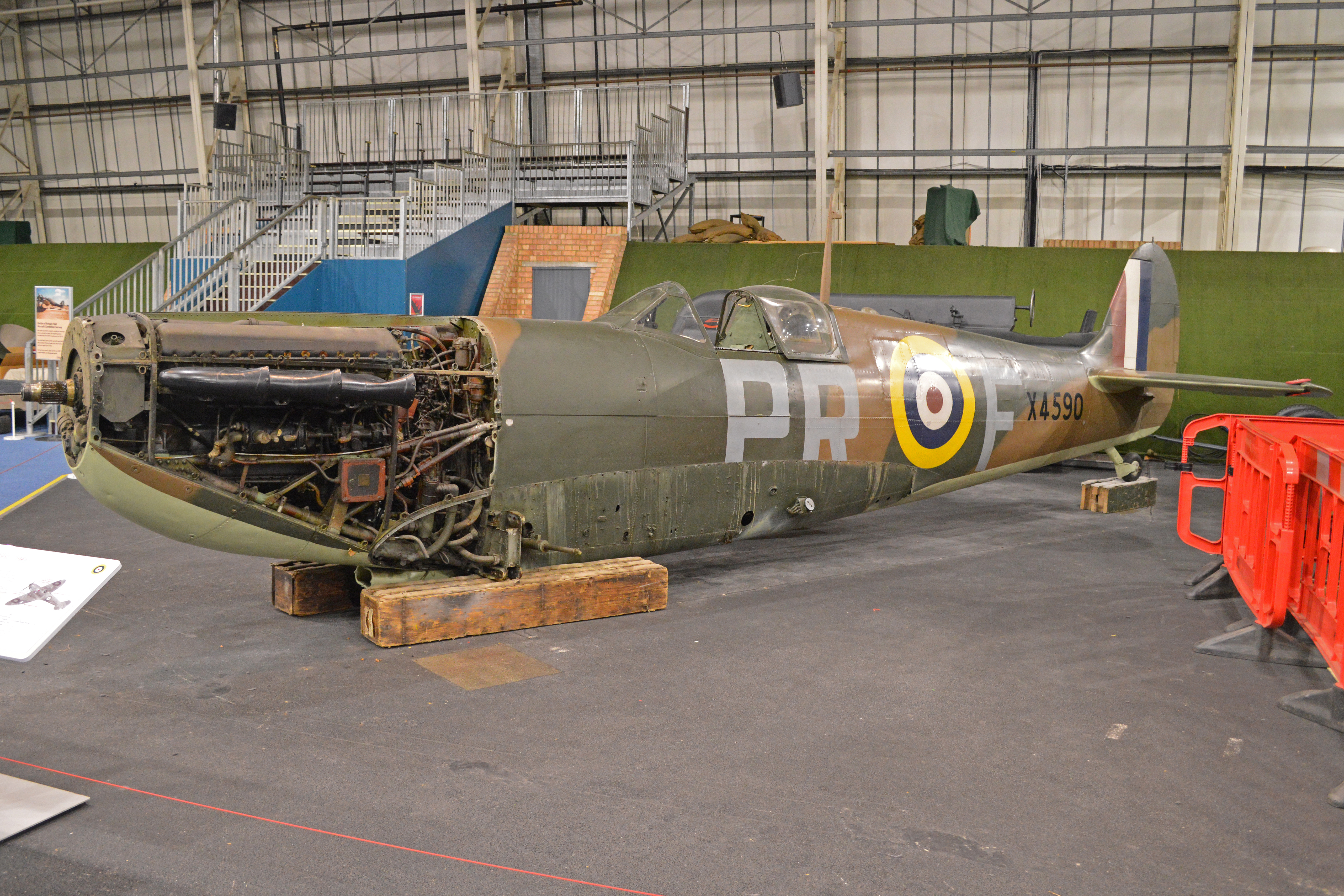 The RAF Museum chose to celebrate the 100th Anniversary of the service by dismantling and closing the museum dedicated to its finest hour, the Battle of Britain Museum. Every cloud has a silver lining, however, and during May 2016 the aircraft were in a part dismantled state, allowing for some interesting photos. c/n 6S-81254. Built at Supermarine’s Southampton factory, this Spit joined 609sqn in October 1940. It moved to 66sqn in February 1941 and then saw service with 57OTU, 303(Polish) sqn and finally with 53OTU from February 1942 till October 1943. In April 1944 it was allocated to the AHB (Air Historical Branch) and stored. Throughout the 1950’s 60’s and 70’s it was displayed at various events throughout the country, being repainted in 1961 into it’s original 609sqn markings from late 1940. Throughout this period it was held as part of 71MU at Bicester, but later moved to RAF Henlow, then RAF Finningely and finally RAF Cosford. In 1978 it moved to the Battle of Britain Hall, where it remained on display until 2016. RAF Museum, Hendon, London, UK. 28th May 2016